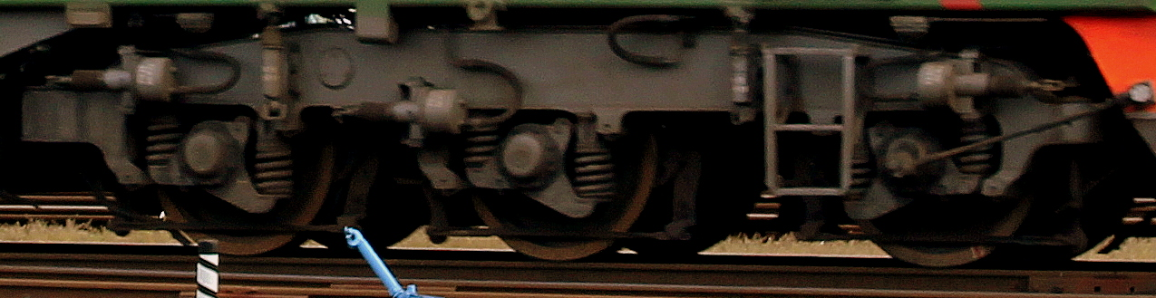 Diesel locomottive TEP70-0315 of Belarus Railways at Villinus train station, Lithuania